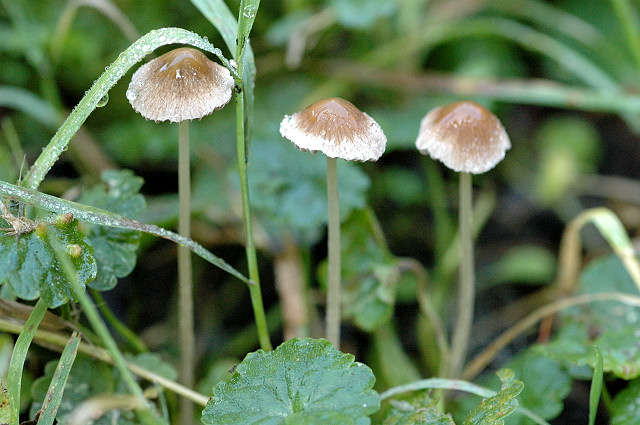 Psathyrella spec. from Commanster, Belgium. The determination of the species shown in this picture has been verified.